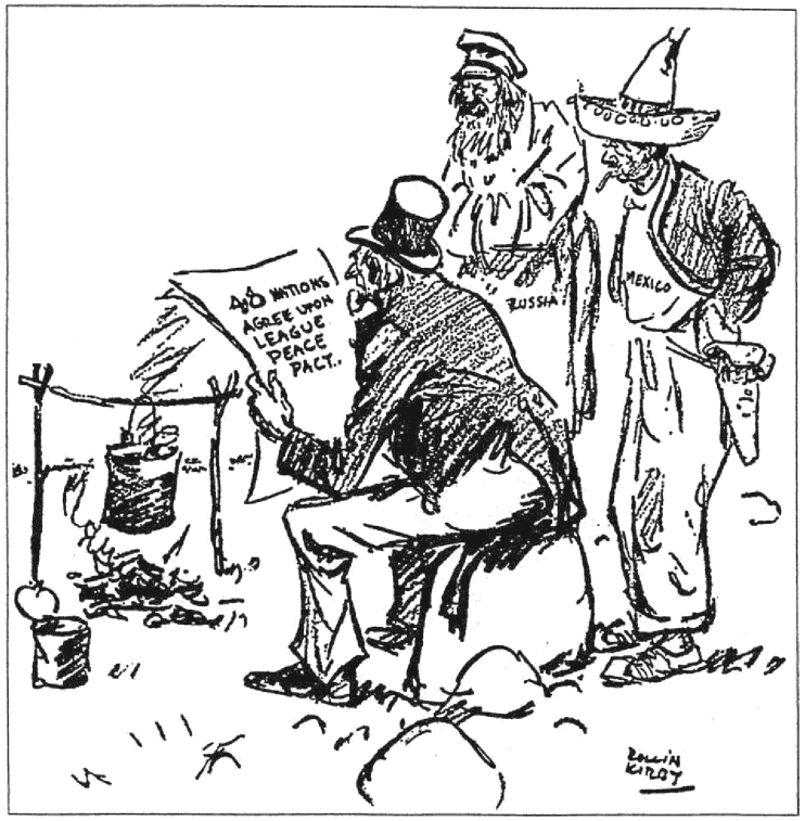 An editorial cartoon depicting the United States, the Soviet Union, and Mexico reading about the formation of the League of Nations. First published in the New York World. Winner of the 1925 Pulitzer Prize for Editorial Cartooning.